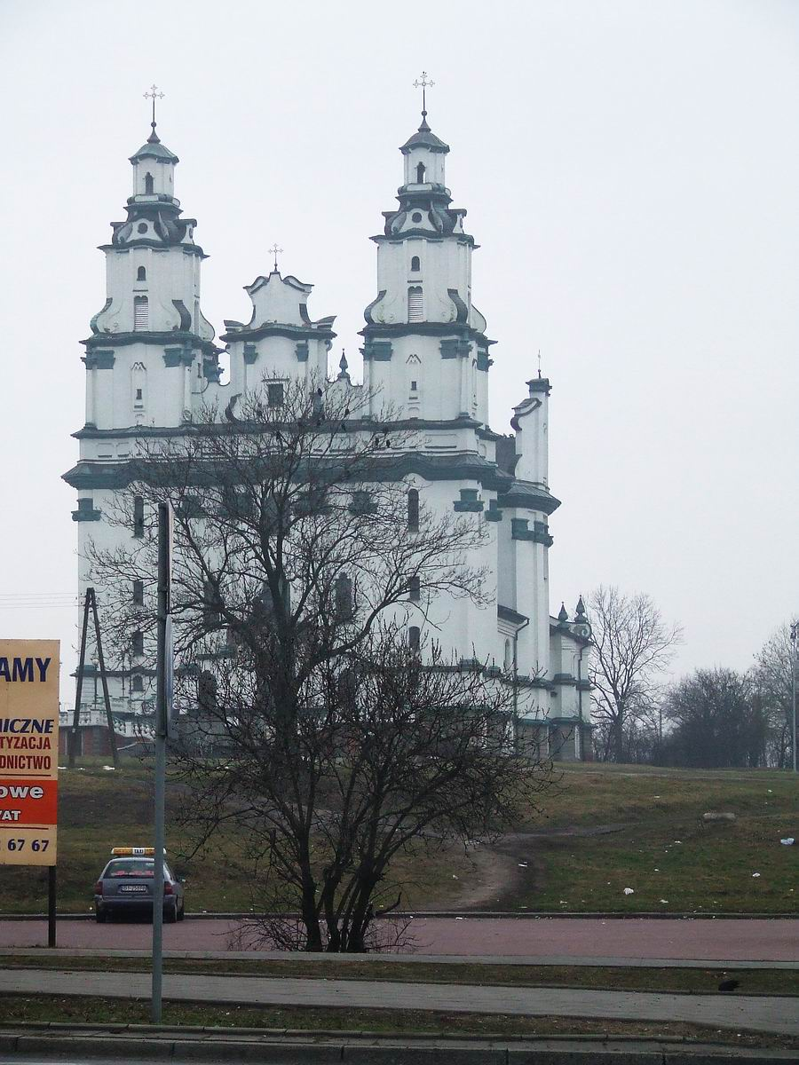 Church of the Resurrection in Białystok. Replica of the demolished church in Berezwecz, Belarus, designed by Johann Christoph Glaubitz.